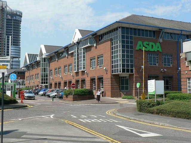 ASDA House, Great Wilson Street, Leeds. The supermarket chain ASDA started life as Associated Dairies, before shortening its name. In 2003 it was bought by the American retail giant Wal-Mart.